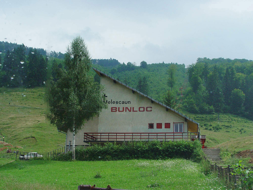 Teleski Bunloc, Sacele, Brasov, Romania Plecare Teleski Bunloc, Sacele, Brasov, Romania